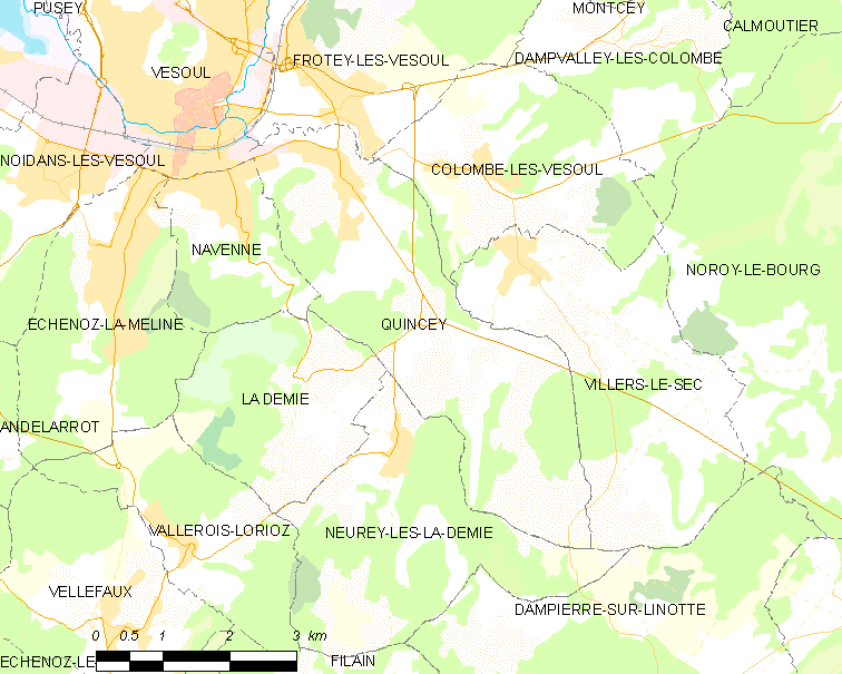 Map of French municipality